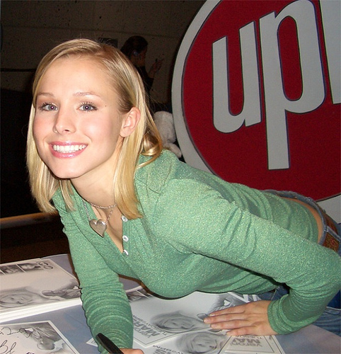 Kristen Bell at a Veronica Mars signing in 2006.